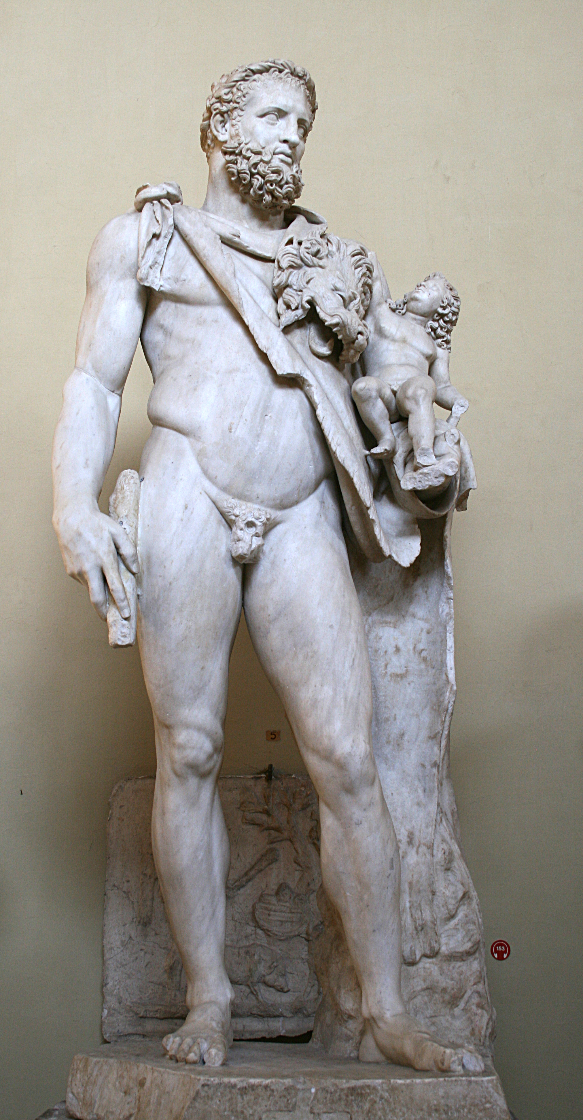 Hercules holding baby Telephus in his arms. Marble of roman copy after a Greek original of the 4th century BC. Found in the 16th century in Campo de’ Fiori in Rome.